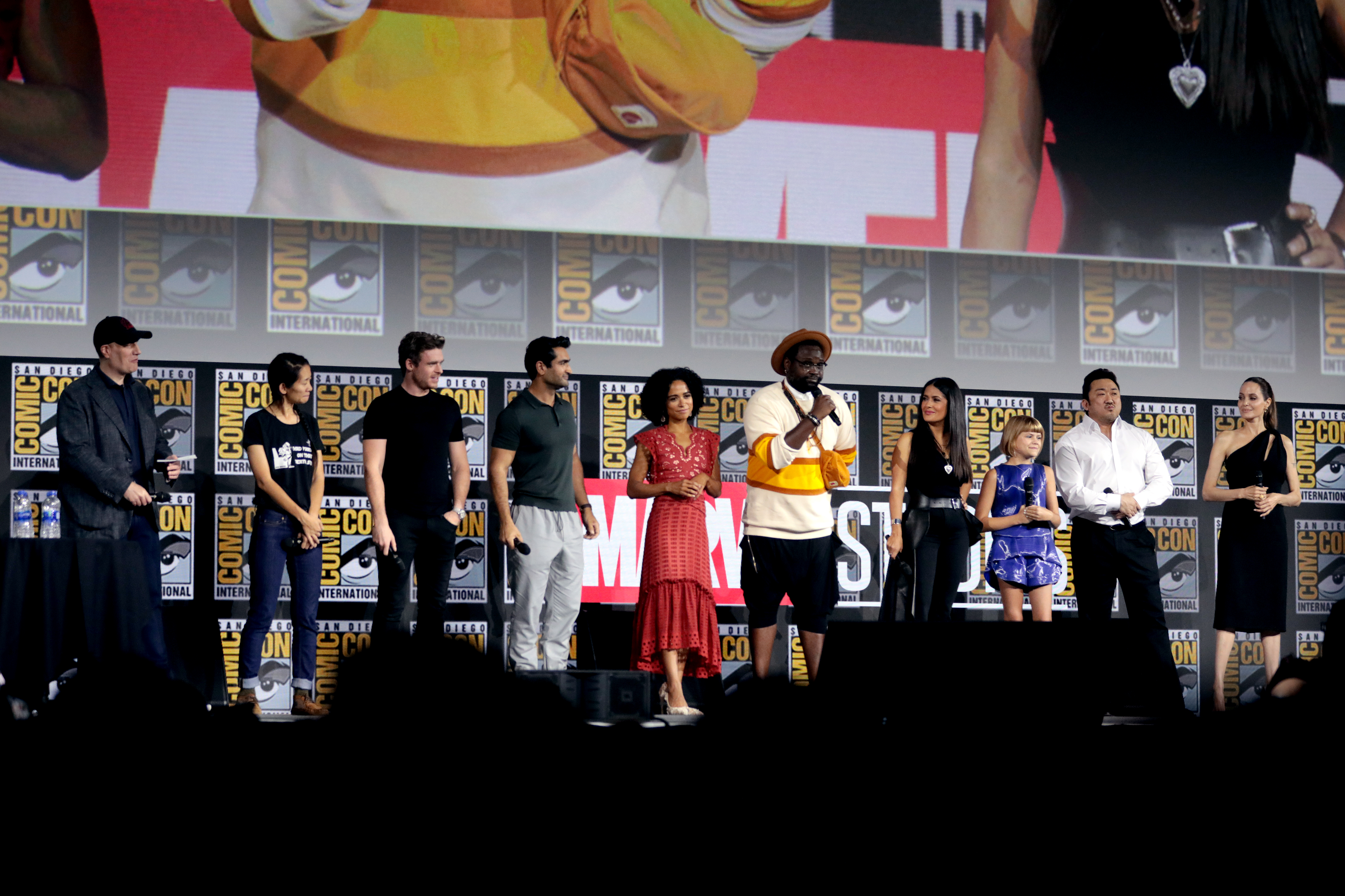 Kevin Feige, Chloe Zhao, Richard Madden, Kumail Nanjiani, Lauren Ridloff, Brian Tyree Henry, Salma Hayek, Lia McHugh, Don Lee and Angelina Jolie speaking at the 2019 San Diego Comic Con International, for "The Eternals", at the San Diego Convention Center in San Diego, California.